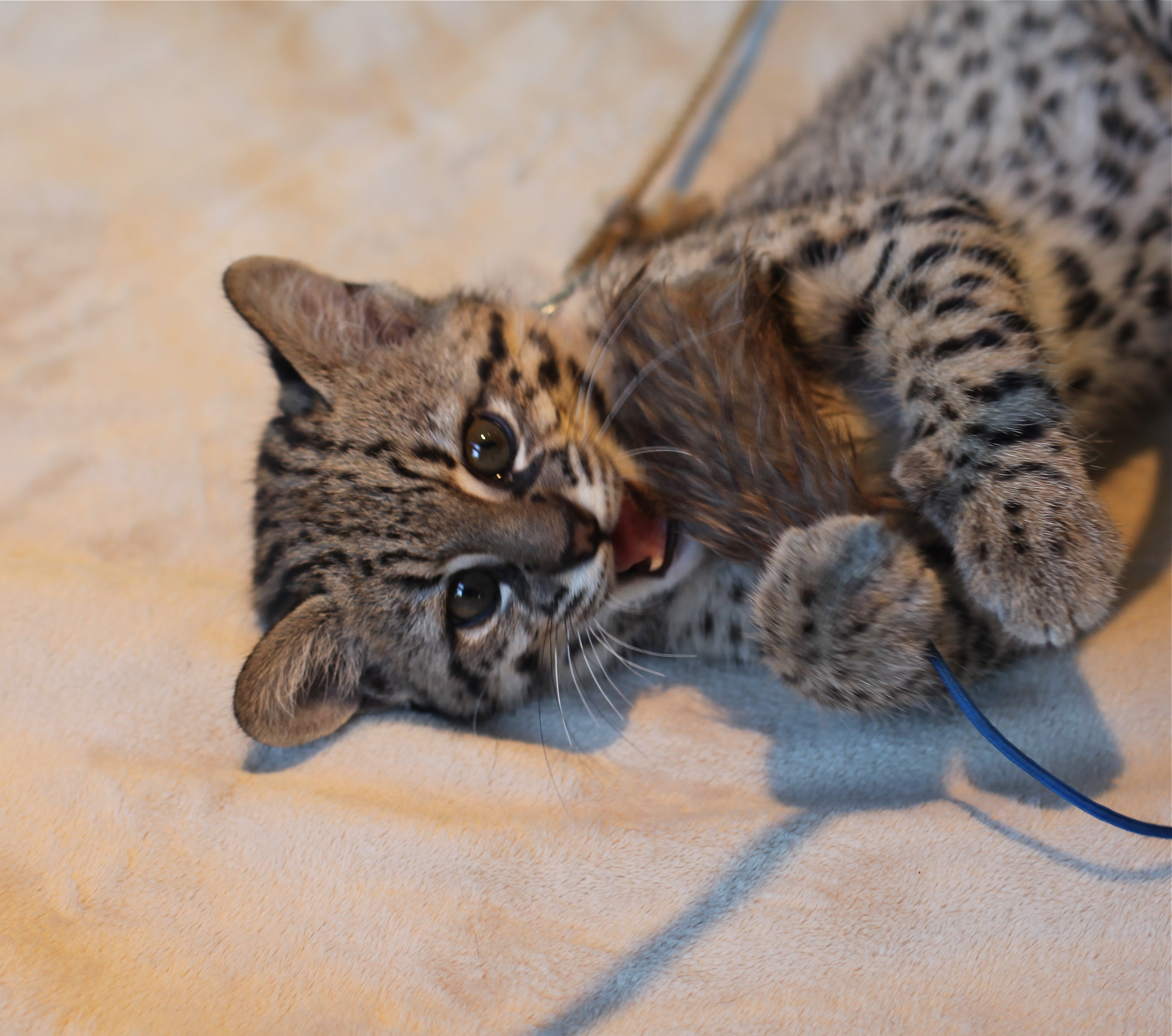 native to Argentina